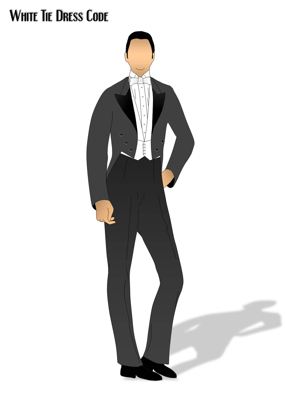 White Tie Dress Code